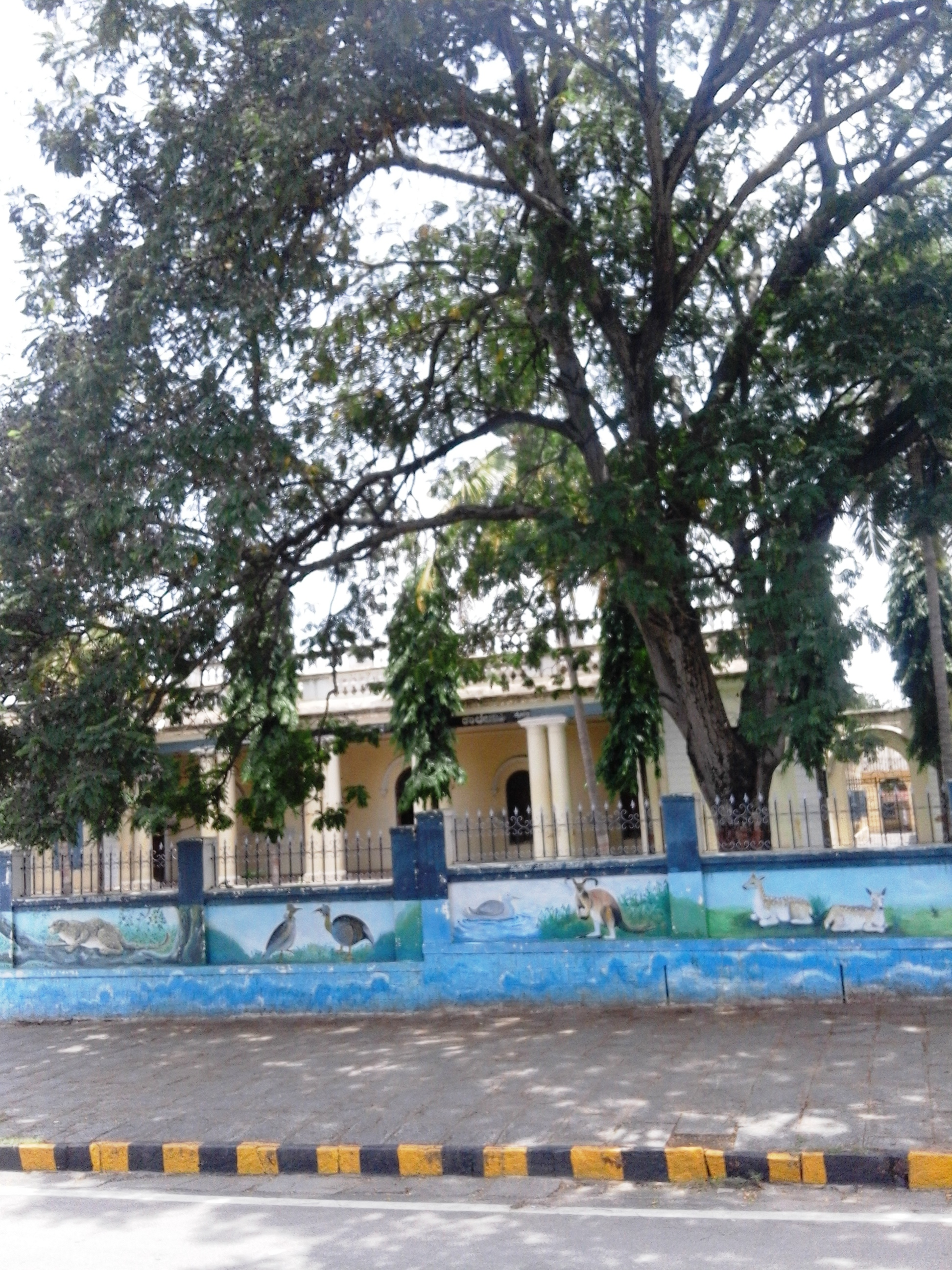 Mysore district, Karnataka state, India